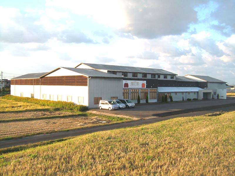 Barcos Co., Ltd head office Kurayoshi, Tottori